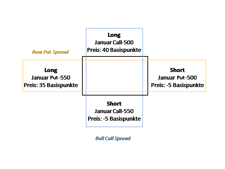 Long Box Spread